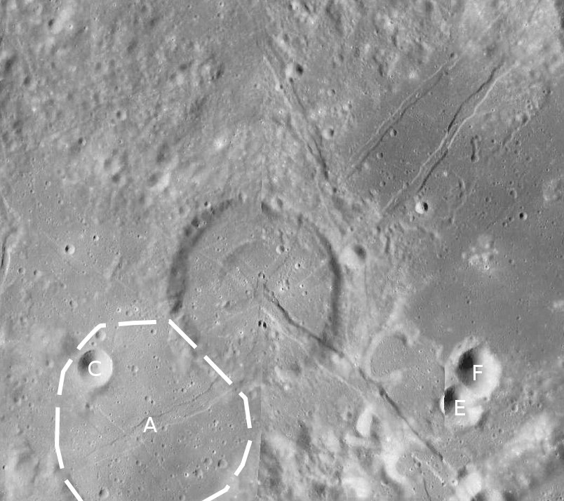 Crater wit satellite faetures and Rimae de Gasparis (detail of LRO - WAC global moon mosaic; Mercator projection)